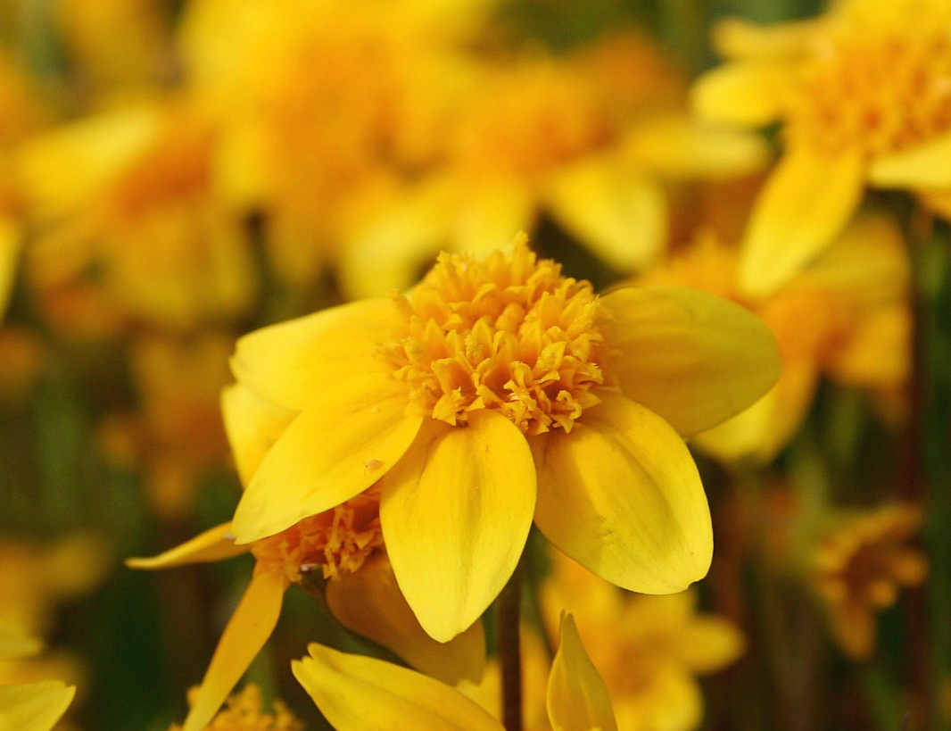 Lasthenia californica — California Goldfields. Taken at the Jepson Prairie Preserve — in the Central Valley of California. Jepson Prairie is managed by UC Davis, and within the University of California Natural Reserve System.